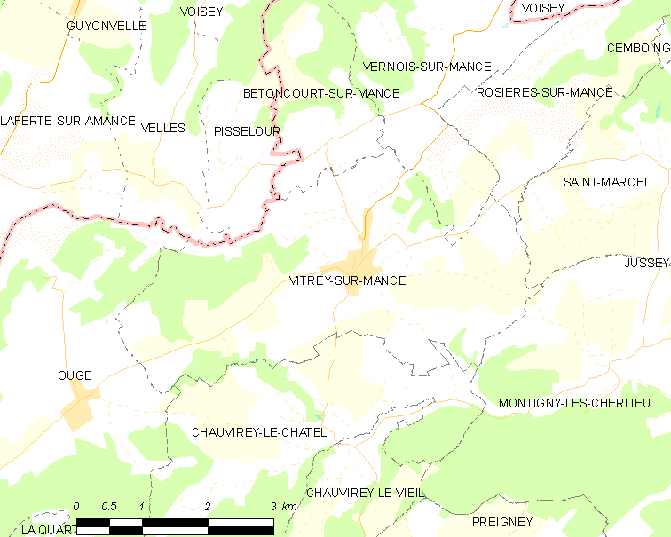 Map of French municipality